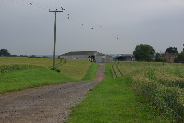 Finedonhill Farm Beyond the farm buildings the land drops down into the valley of the River Ise and the town of Wellingborough. A flock of pigeons were perched on the electricity cables.